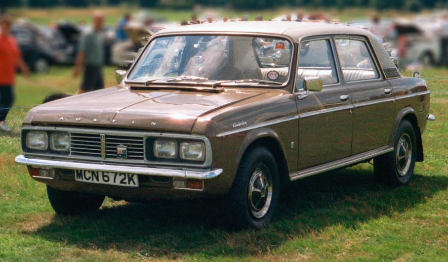 1971 Austin Kimberley (2227cc) at a British car show. This car was brought to the UK in 1985.